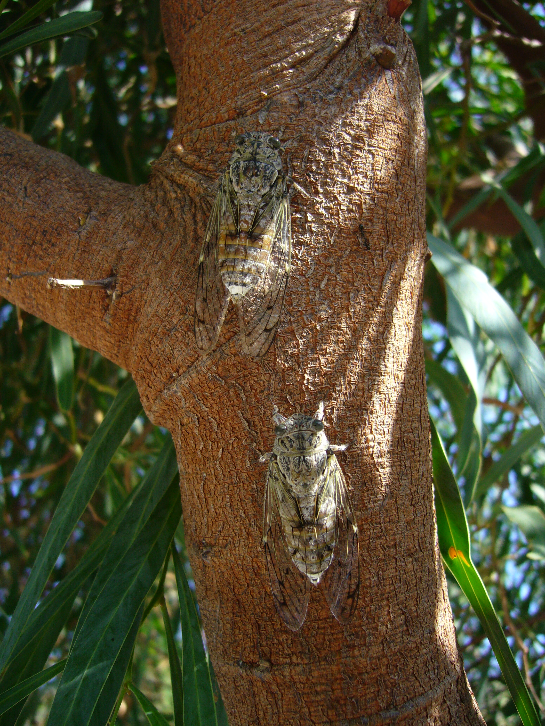 A pair of Greek cicadas